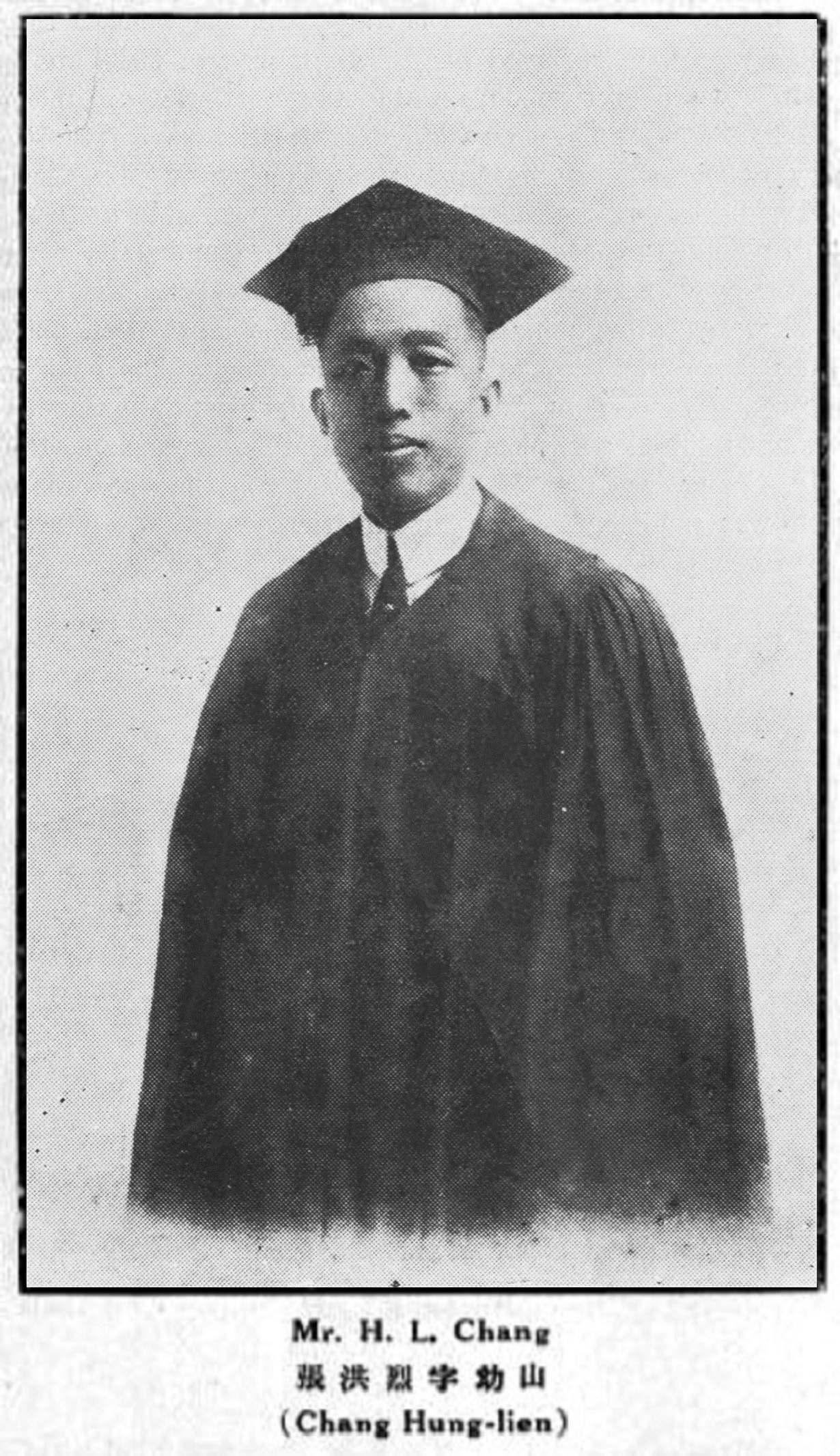 Zhang Honglie (1887-？)